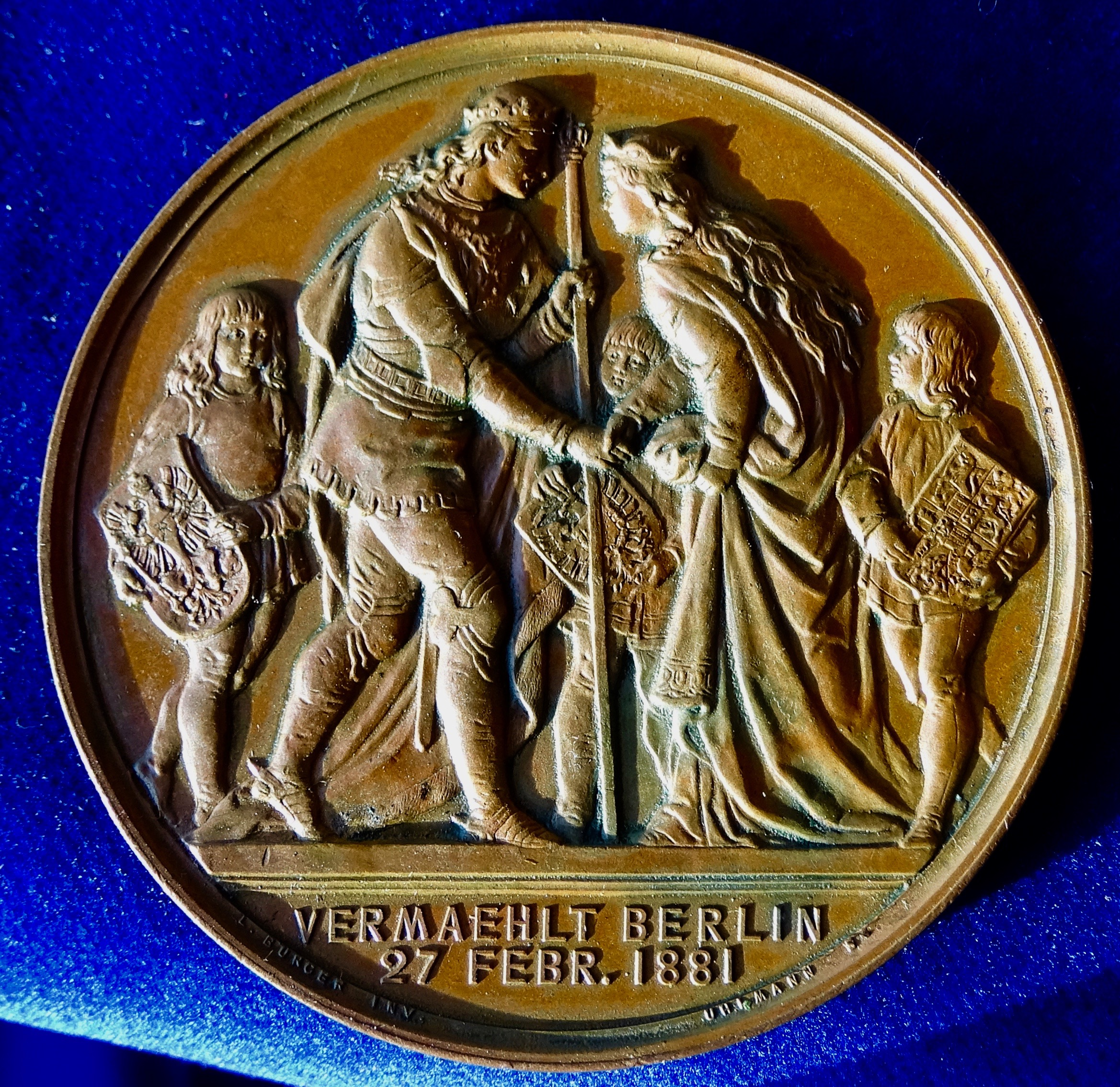 German State Prussia Wedding Medal 1881 Prince Wilhelm and Auguste Victoria Bronze medallion. d. = 54 mm. Wilhelm II, German Emperor. 1888 - 1918 and Augusta Victoria of Schleswig-Holstein, the last German empress and queen of Prussia, * 1858 - 1921 † Around 2 portraits facing each other below royal crown: "WILHELM PR.V. PREUSSEN VICTORIA PR.Z. SCHLESW. HOLST."/ The royal couple shaking hands in front of 3 squires carrying the shields of Prussia, Germany, and Schleswig-Holstein. 2 lines in exergue: "VERMAEHLT BERLIN 27 FEBR. 1881". Slg Marienburg 6783; Sommer K 94; Lange 570 b. Condition: EXTREMELY FINE+.